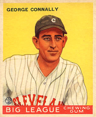 1933 Goudey baseball card of George "Sarge" Connally of the Cleveland Indians #27. PD-not-renewed.